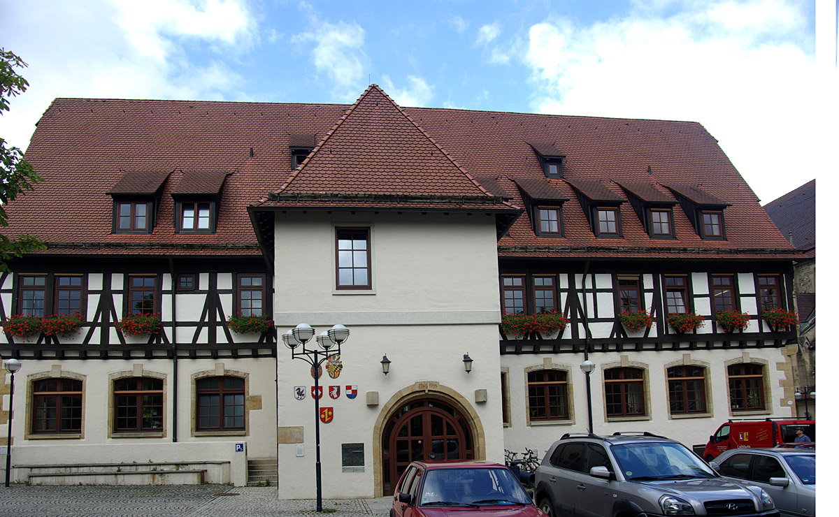 Town hall of Dettingen an der Erms